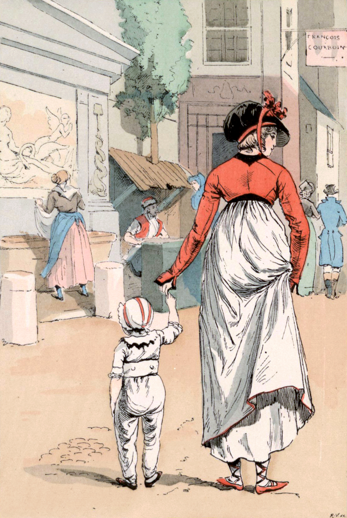 This plate shows a woman in an Empire style dress, typically made of white muslin. These dresses were called 'chemises' and had an empire waist (right below the bosom). Women wore only light underwear underneath, in contrast to the corsets and petticoats of earlier and later fashions. This style was simple and showed more of the woman's natural body than older, more formal styles. The woman wears a simple cotton hat, adorned with a ribbon, reflective of a more democratic style worn by women at all levels of society and made more cheaply with the influx of cotton from British-ruled India. La fontaine, construite en 1807, est détruite en 1855. Le bas relief du sculpteur Achille Valois (Léda métamorphosée en cygne) est transféré à l'arrière de la fontaine Médicis et appelée désormais fontaine de Léda.